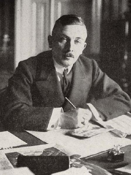 German Foreign Minister Richard von Kühlmann, served during World War I.